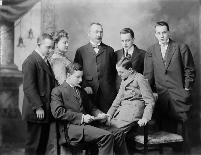 Group photo - Hon. Clifford Sifton